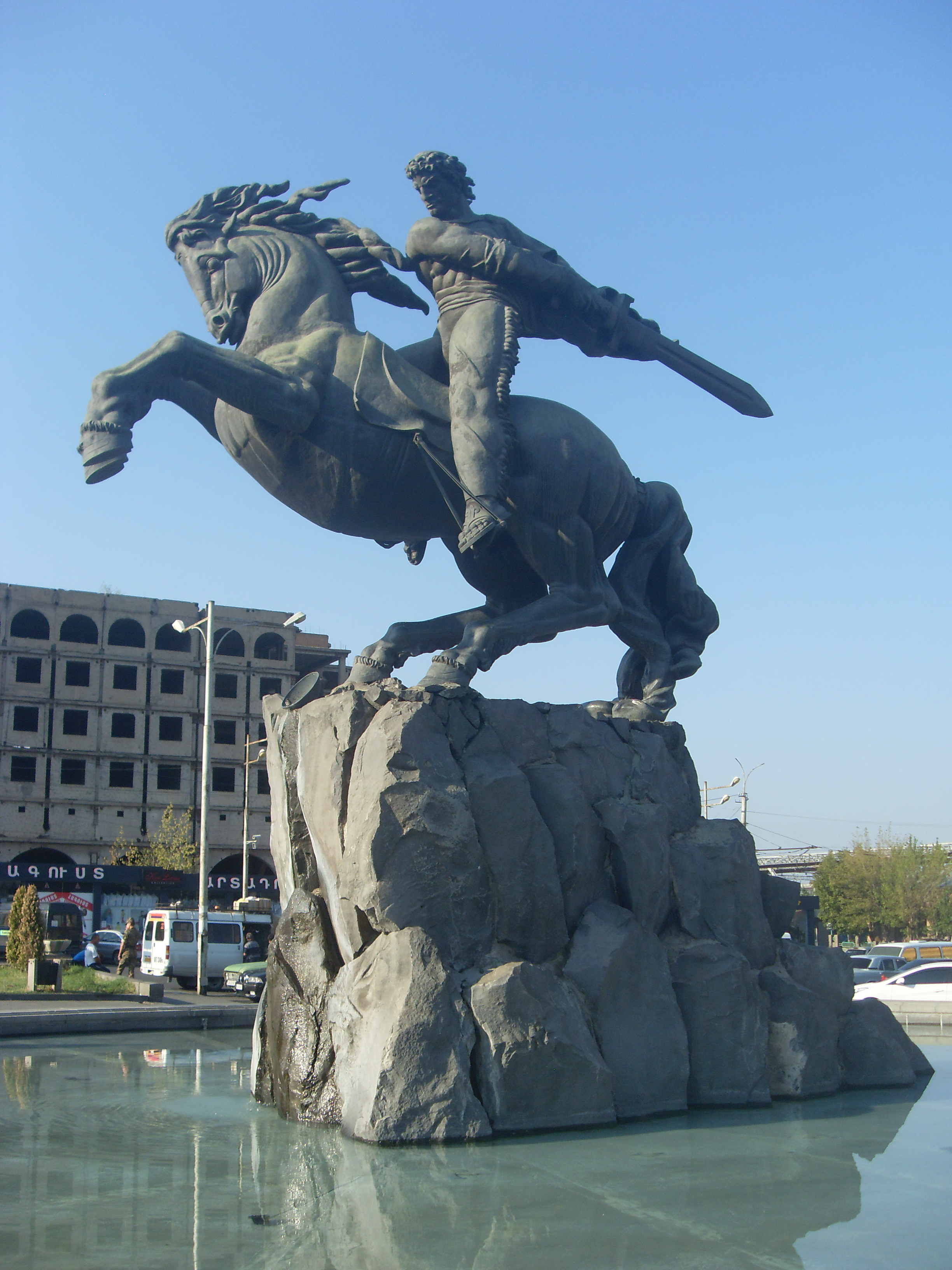 Sasuntsi Davit statue, Yerevan, 1959, Yerevan, sc. Yervand Kochar 5/16